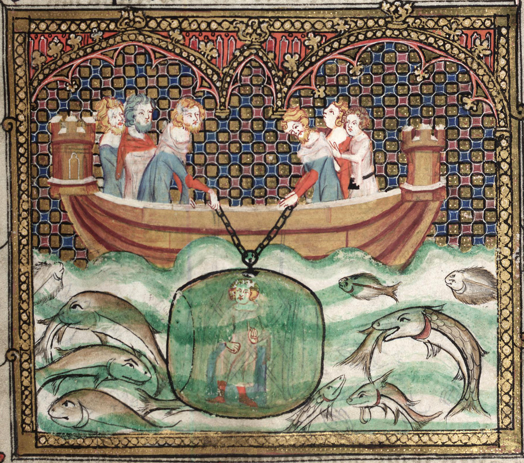 Boat with a battlemented erection at each end. Alexander the Great in a glass diving-bell, from the Romance of Alexander.